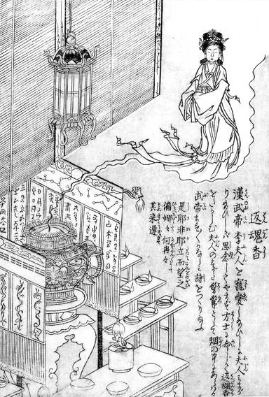 Hangonkō (返魂香, magical incense which can conjure up the spirits of the dead) from the Konjaku Hyakki Shūi (今昔百鬼拾遺)